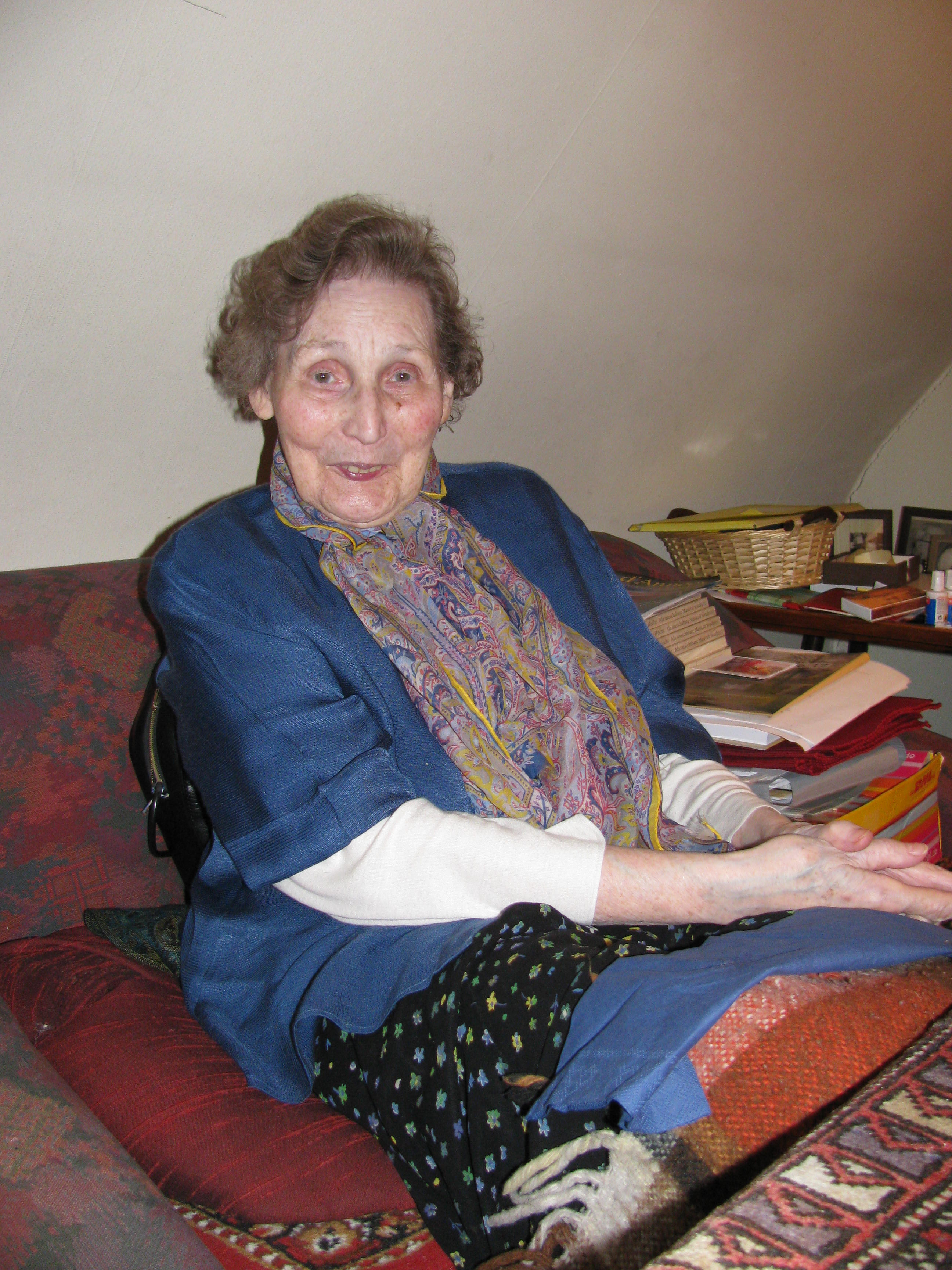 Ingeborg Hecht portrait (alone) while seated during afternoon tea with Gerold and Heinrich Rupprecht 2009-04-17 in her apartment at 11 Dreikönigstrasse, Freiburg im Breisgau, Germany